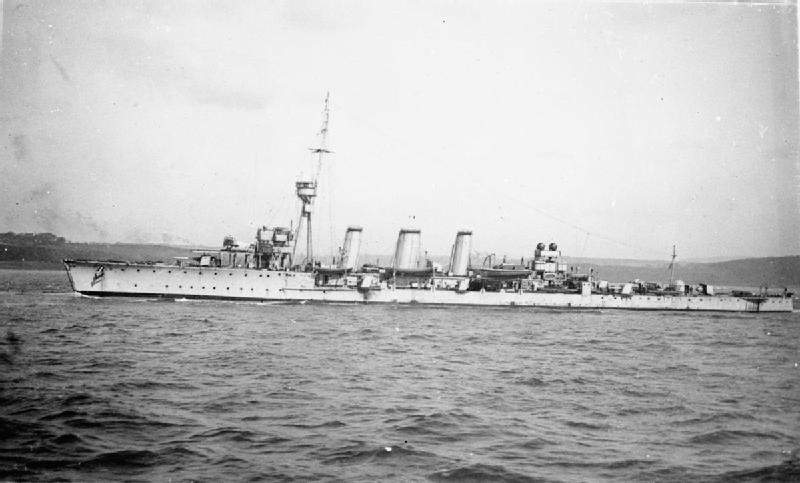 HMS AURORA fitted with tripod mast and aeroplane platform forward, 1918.